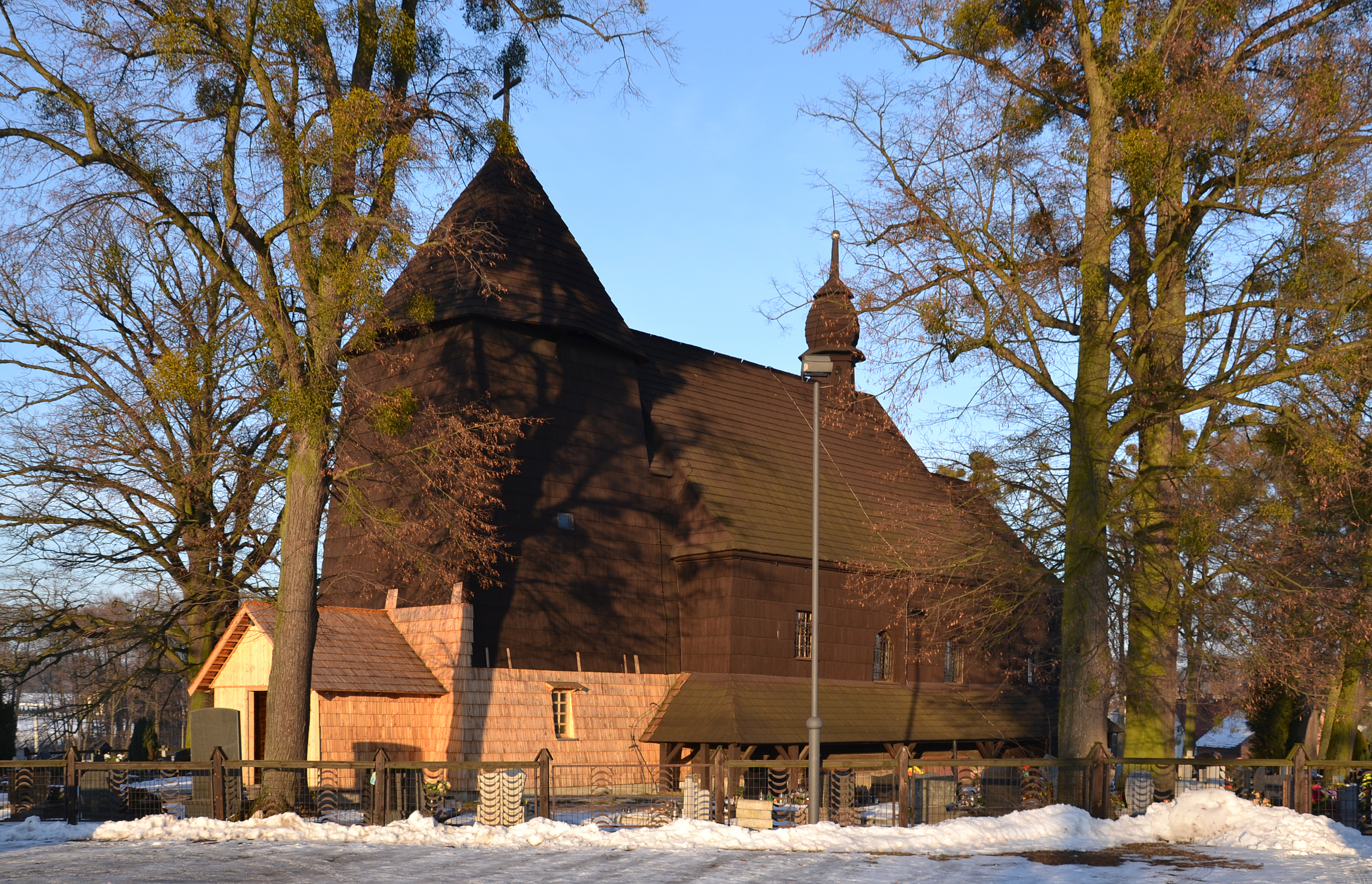 Sierakowice (Schierakowitz, Graummannsdorf), Upper Silesia - wooden church